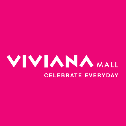 Viviana Mall Logo